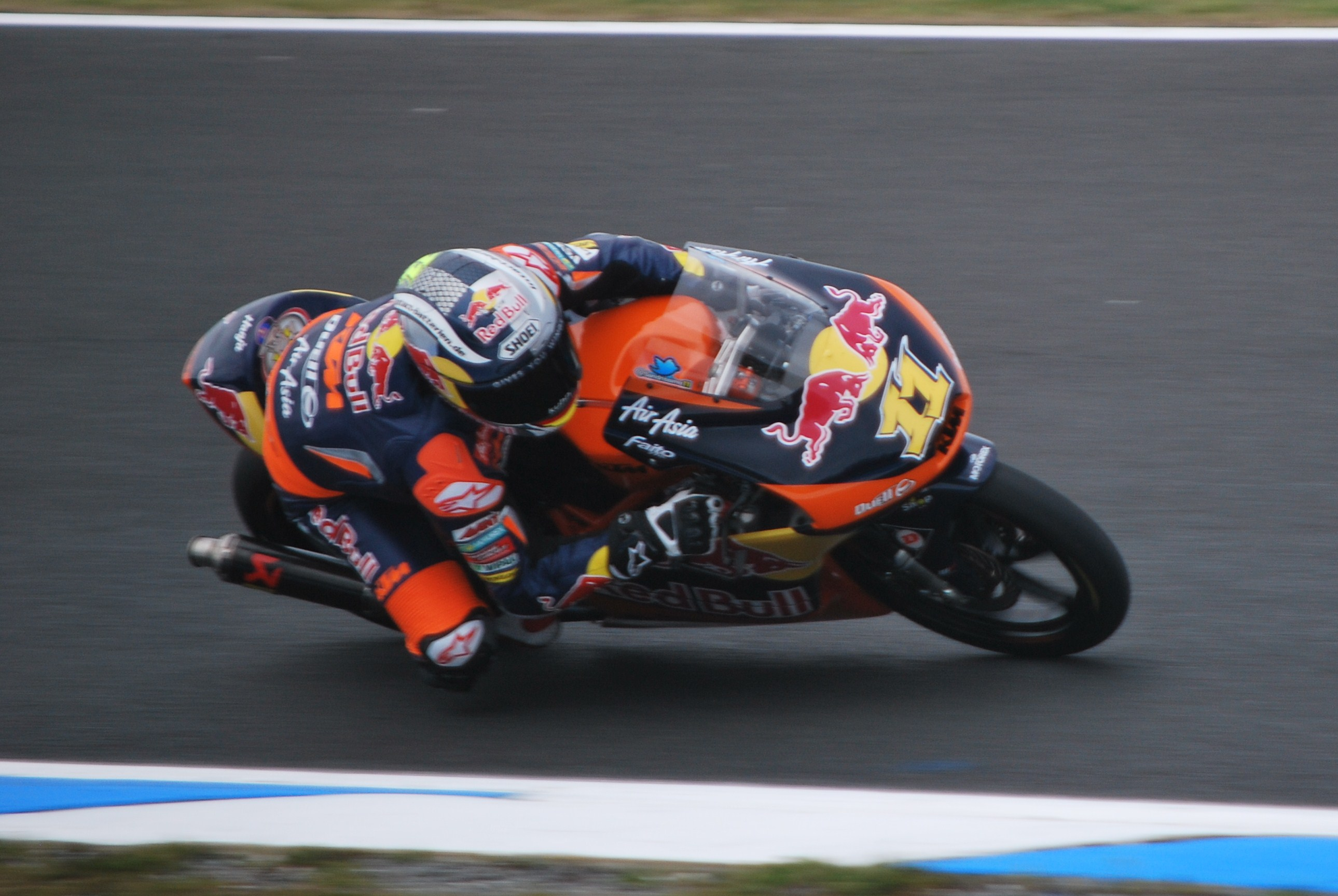 Sandro Cortese at Phillip Island